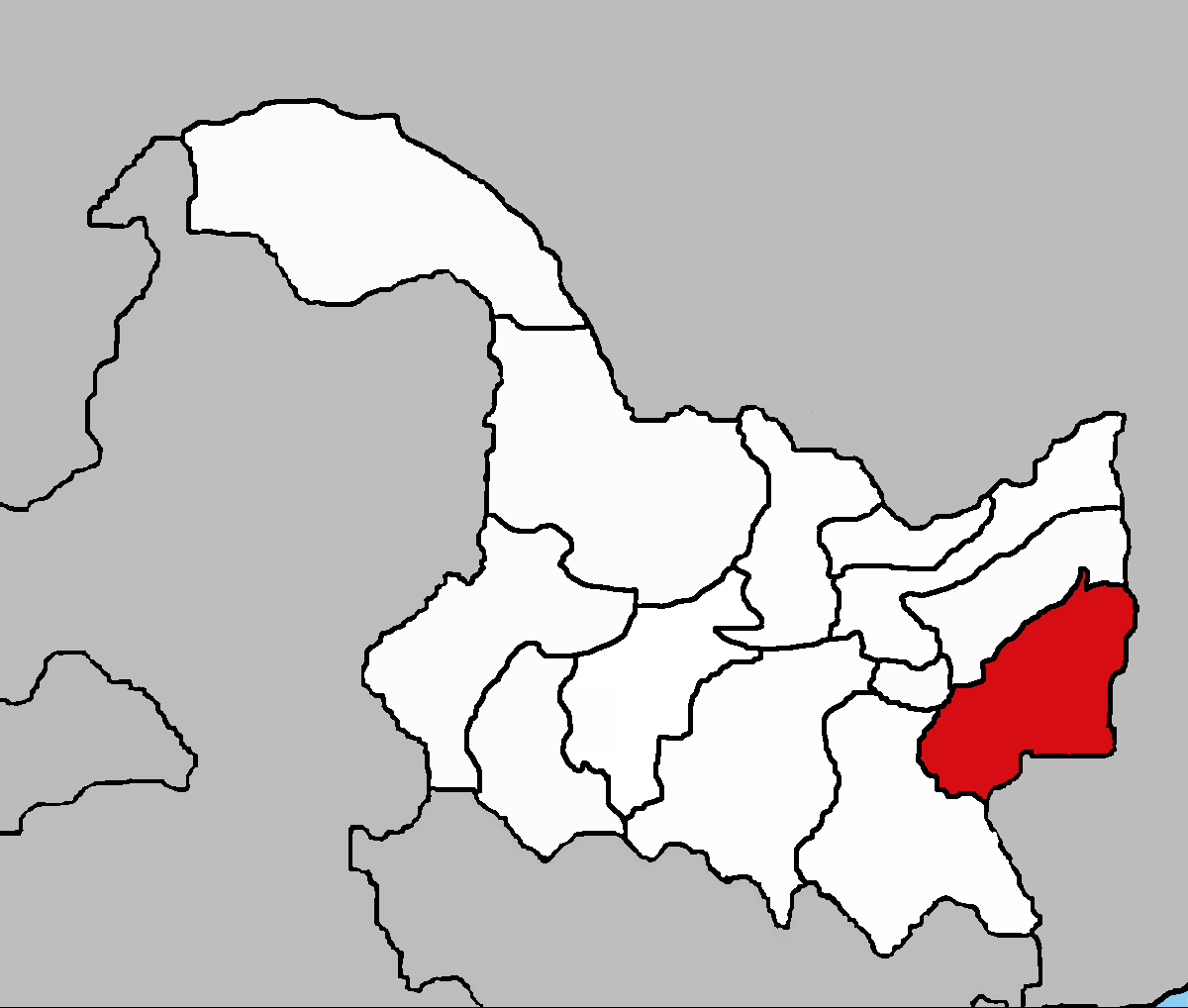 Map of Jixi Prefecture — Heilongjiang Province, China